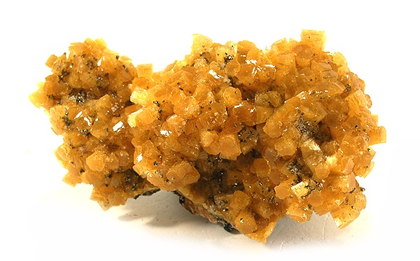 Stilbite-Ca Locality: Malmberget, Gällivare, Lappland, Sweden (Locality at ) Size: small cabinet, 8.9 x 5 x 4 cm Stilbite This is, quite simply, the finest stilbite I have ever seen from Malmberget. It also happens to be big, and pretty, period! Note the fine individual, translucent crystals all over the piece, all around!? I have not seen the like, and priced based on cost only as I really have nothing of this calibre to compare it to. I can only say that I have seen far lesser specimens go for $1000, and so i valued this quite highly above that in the collection purchase.